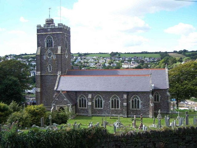 St. Peter, Revelstoke (Noss Mayo)